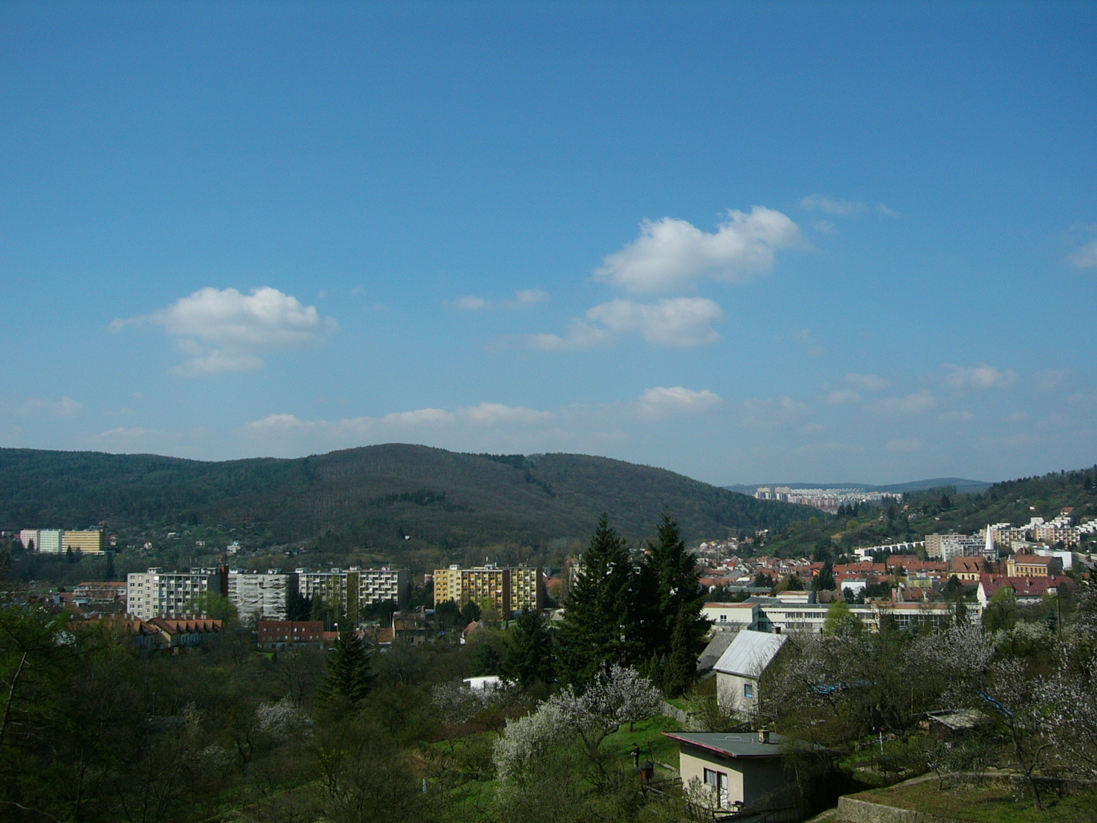 Pohled z Palackého vrchu